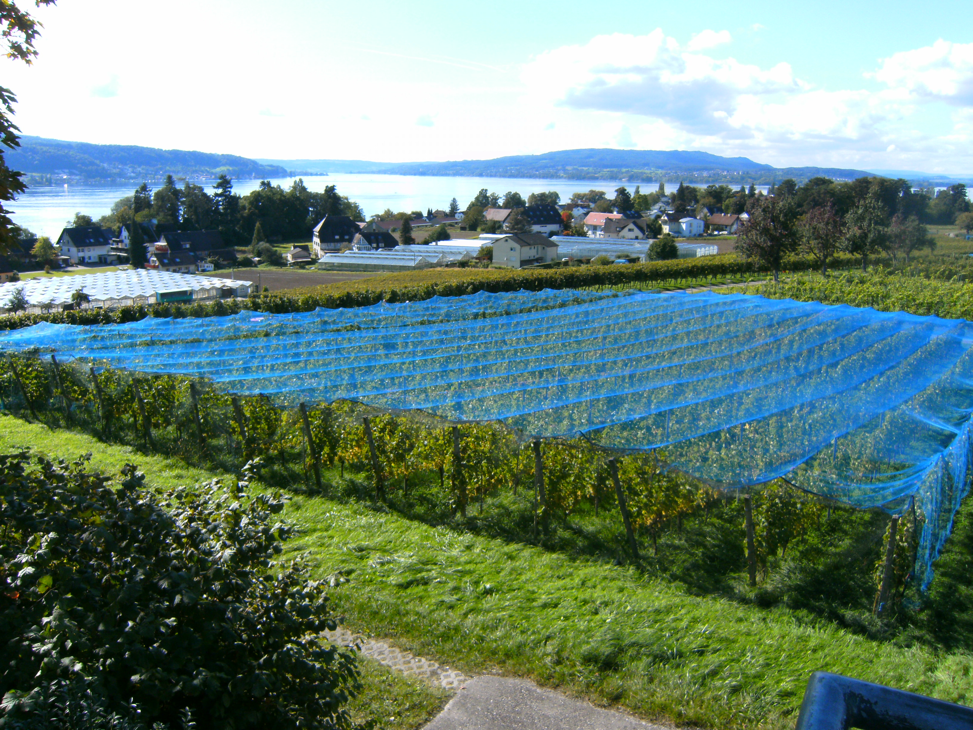 Reichenau Island: vineyard west of the hill Hochwart.